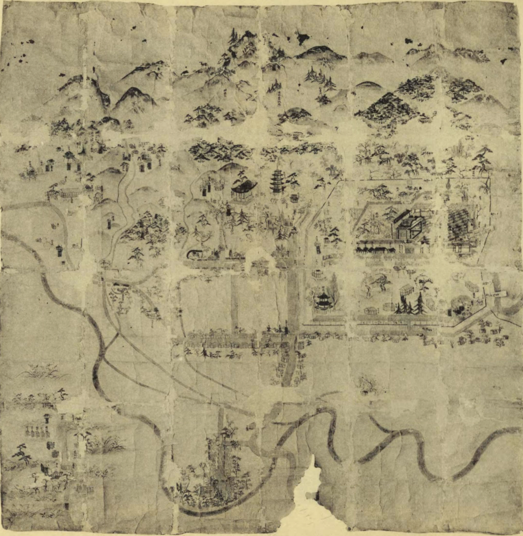 Old map of the Upper Shrine (Kamisha) of Suwa in Nagano Prefecture